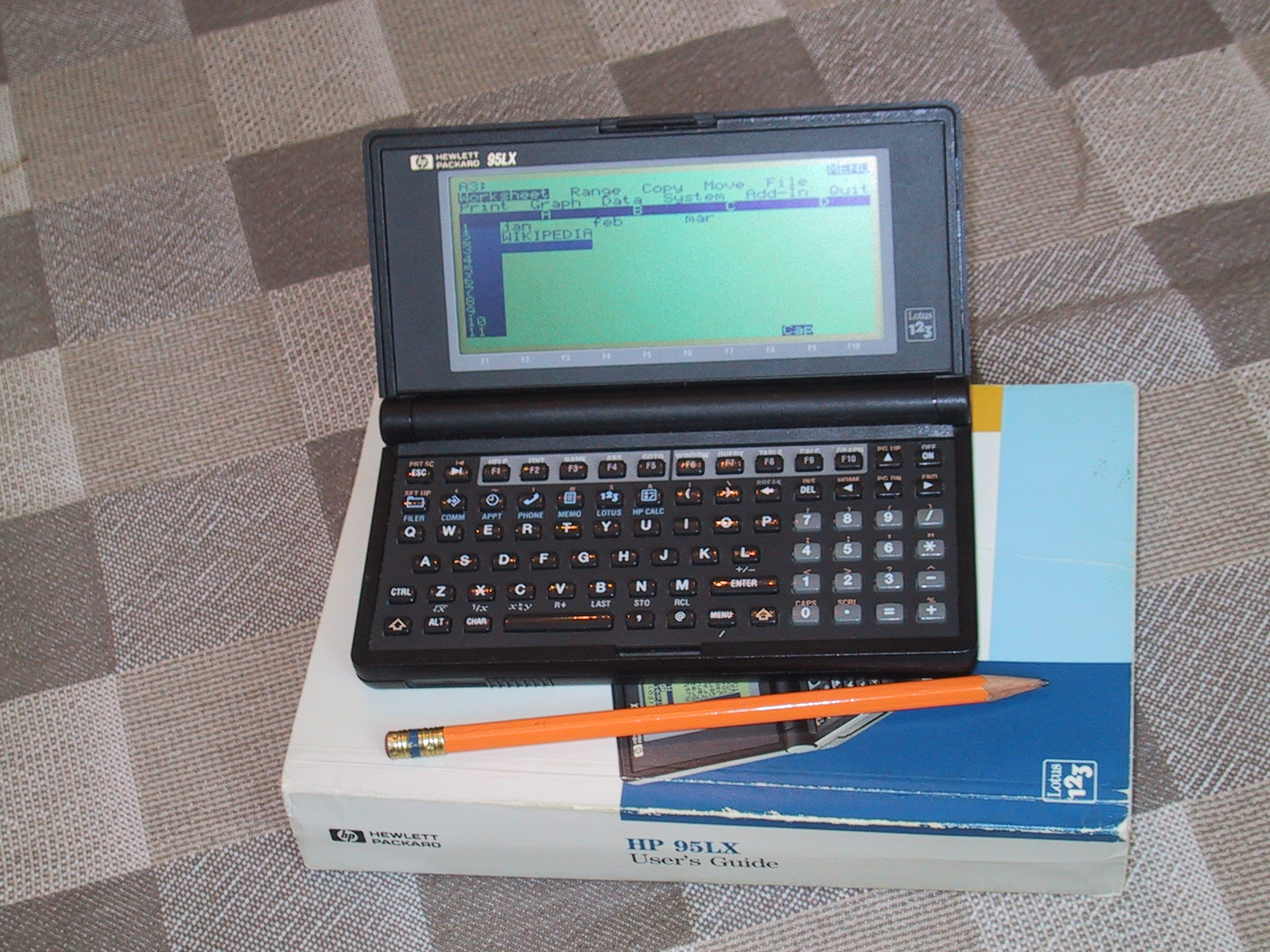 Hewlett Packard HP 95 LX pocket PC This 1991 HP 95LX pocket PC ran MS DOS 3.22 and had Lotus 1-2-3 built into ROM This particular unit was made in 1991 and has only 512K of memory. It had an Intel 8088 compatible processor and runs on two AA penlight dry cells, with a lithium coin cell for memory back-up. It could use static RAM PCMCIA cards for storage, and could connect to a modem or printer using an RS 232 compatible interface. Note that the owner's manual is larger and heavier than the computer. A pencil shows approximate scale.